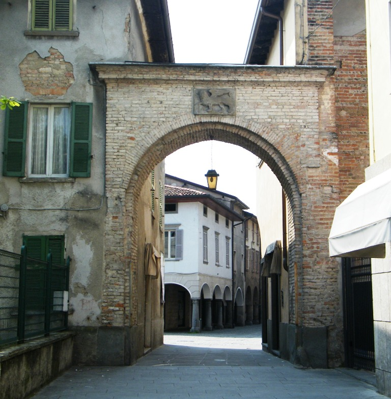 Portal with Lion of St Mark. Romano di Lombardia.